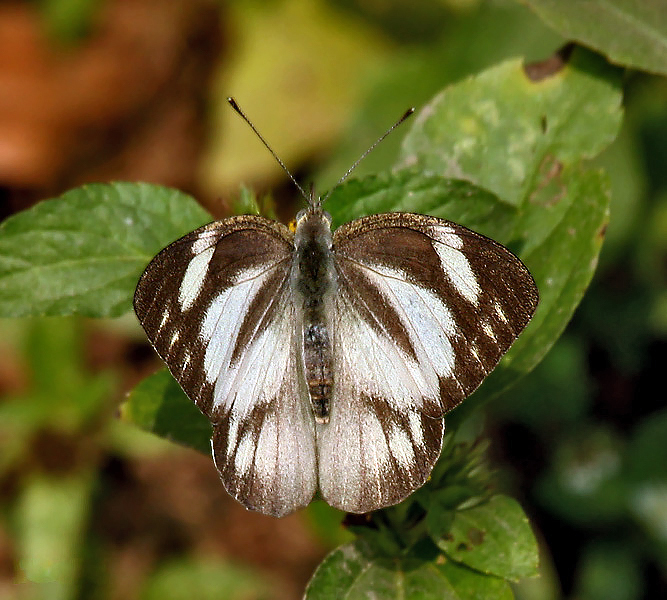 Western Striped Albatross Appias libythea in Kolkata, West Bengal, India.